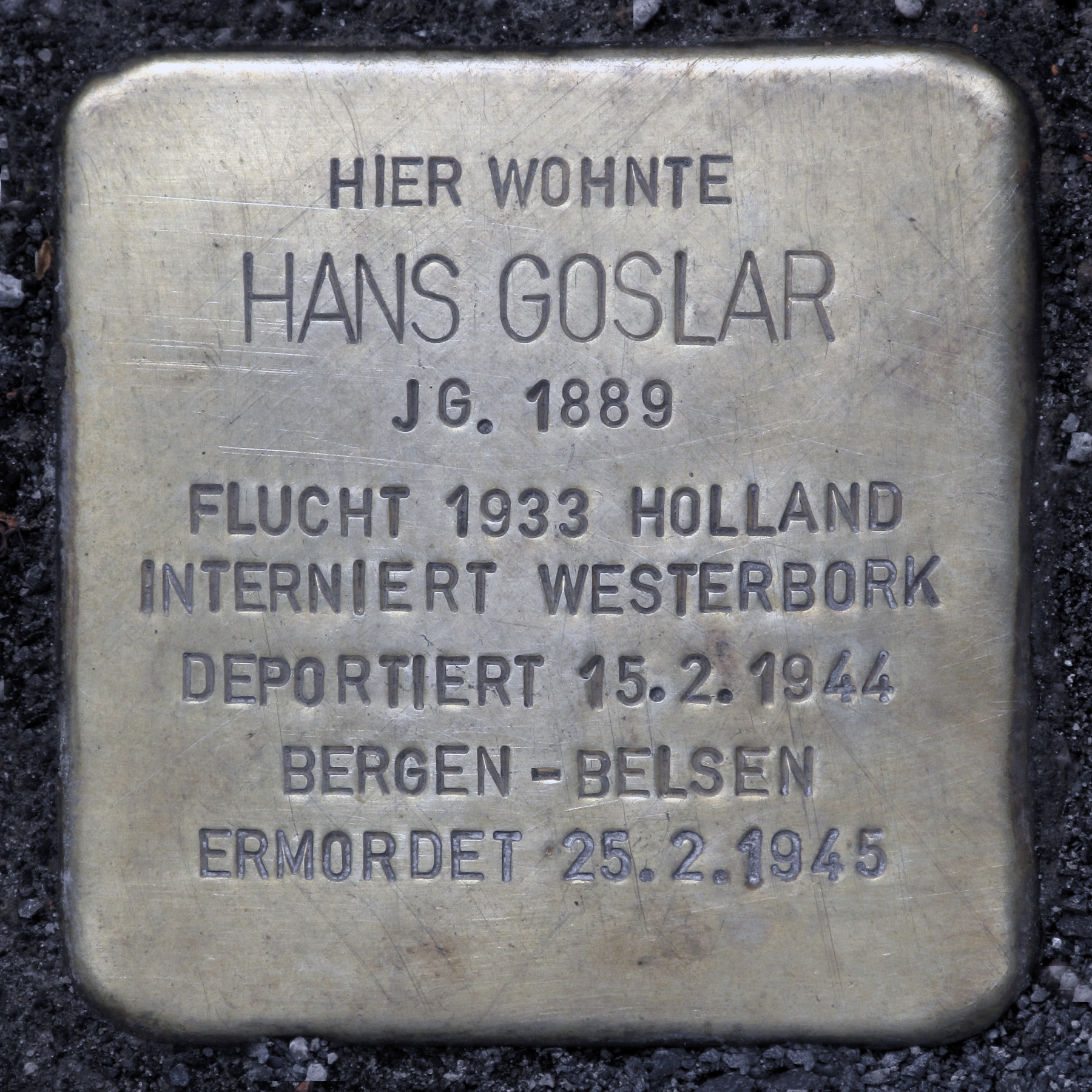 "Stolperstein" (stumbling block), Hans Goslar, Paul-Löbe-Allee, Berlin-Tiergarten, Germany